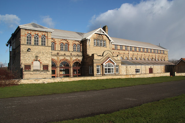 Racecourse grandstand The grandstand at Lincoln racecourse, redundant as a grandstand but the facilities are used for a range of community functions, including a mosque for Friday prayers. Racing took place at Lincoln between 1858 and 1965 and "The Lincoln" remains one of the biggest races of the flat season, although now run at Doncaster